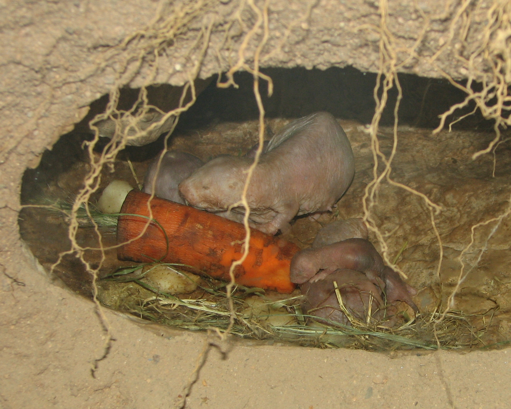 Naked Molerat Family at Louisville Zoo